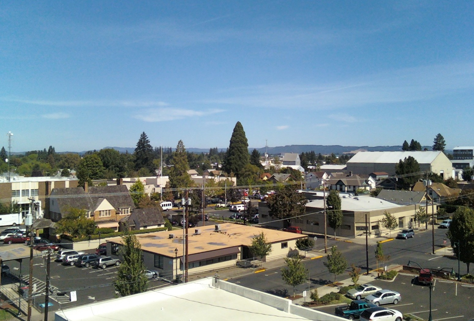 Downtown McMinnville, Oregon, looking sout from the Hotel Oregon.